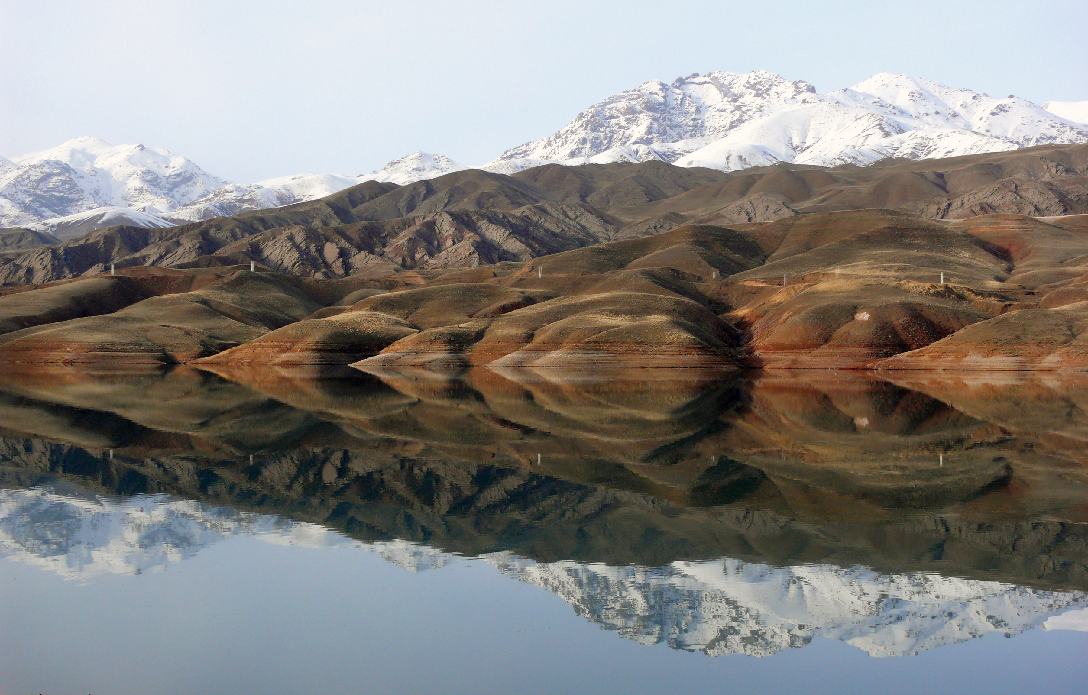 Taleghan lake